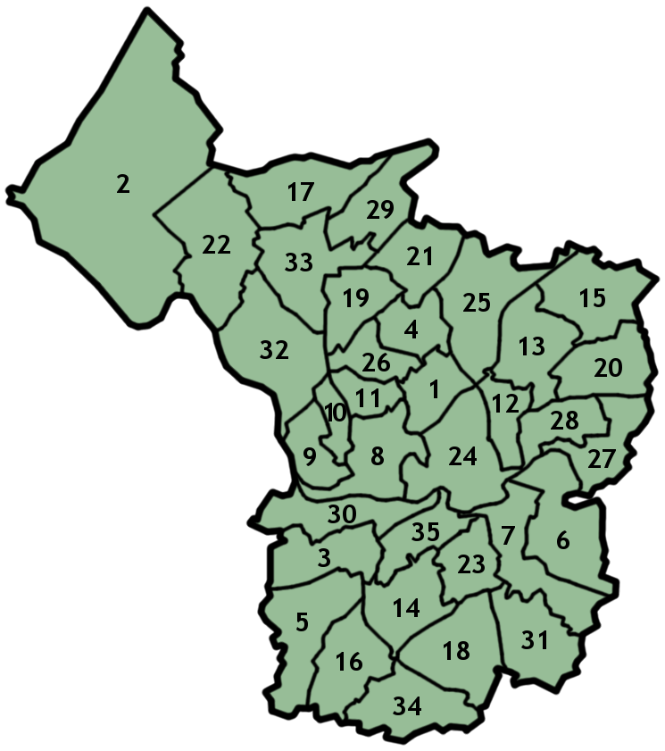 [1] Ashley [2] Avonmouth [3] Bedminster [4] Bishopston [5] Bishopsworth [6] Brislington East [7] Brislington West [8] Cabot [9] Clifton [10] Clifton East [11] Cotham [12] Easton [13] Eastville [14] Filwood [15] Frome Vale [16] Hartcliffe [17] Henbury [18] Hengrove [19] Henleaze [20] Hillfields [21] Horfield [22] Kingsweston [23] Knowle [24] Lawrence Hill [25] Lockleaze [26] Redland [27] Southmead [28] Southville [29] St George East [30] St George West [31] Stockwood [32] Stoke Bishop [33] Westbury-on-Trym [34] Whitchurch Park [35] Windmill Hill